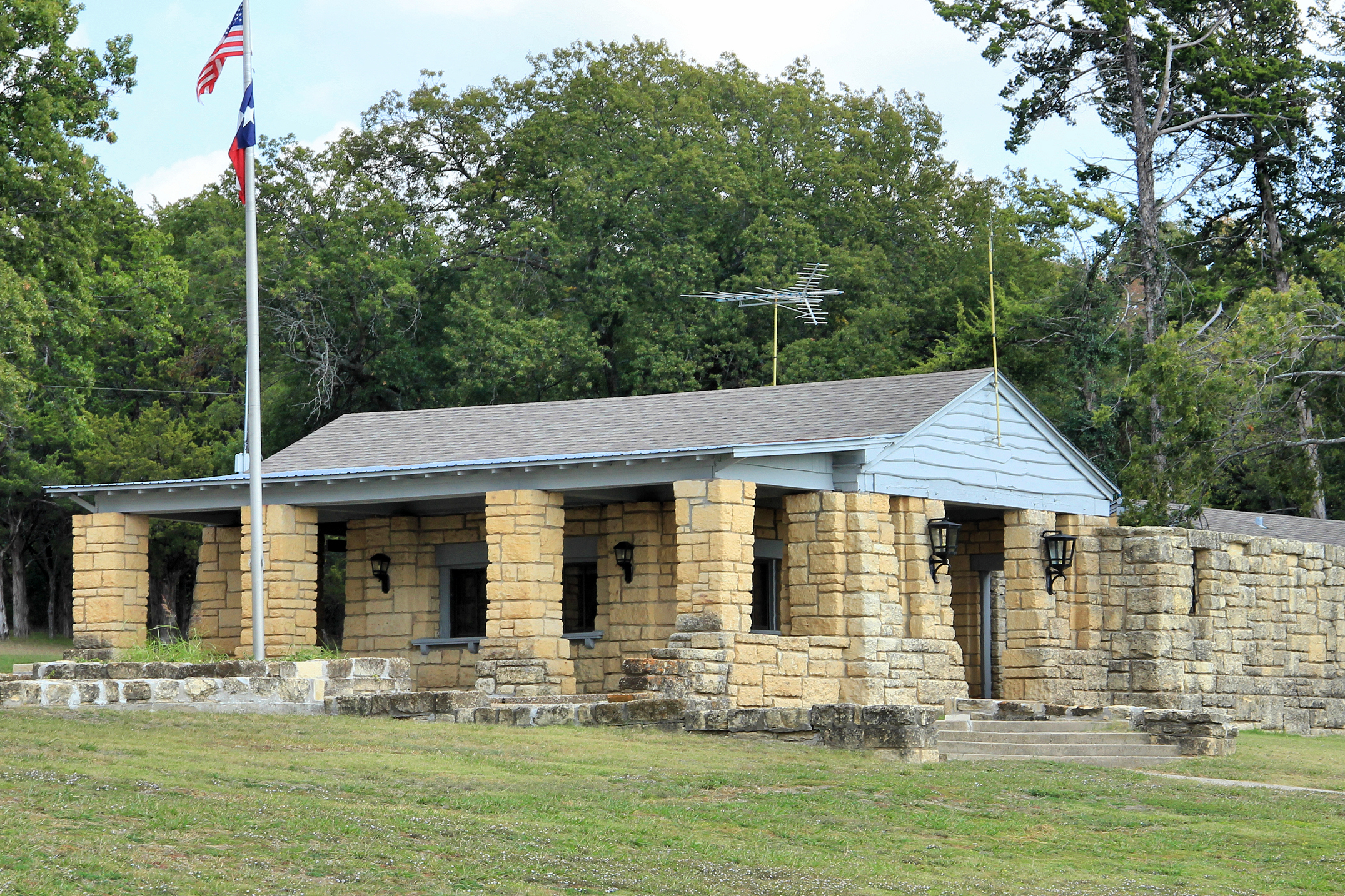 The CCC built concession building now serves as the park headquarters of Bonham State Park, Fannin County, Texas, United States.